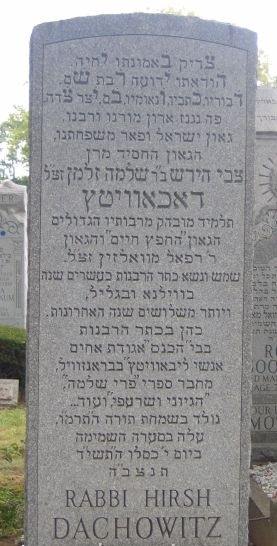 The grave of Rabbi Hirsh Dachowitz